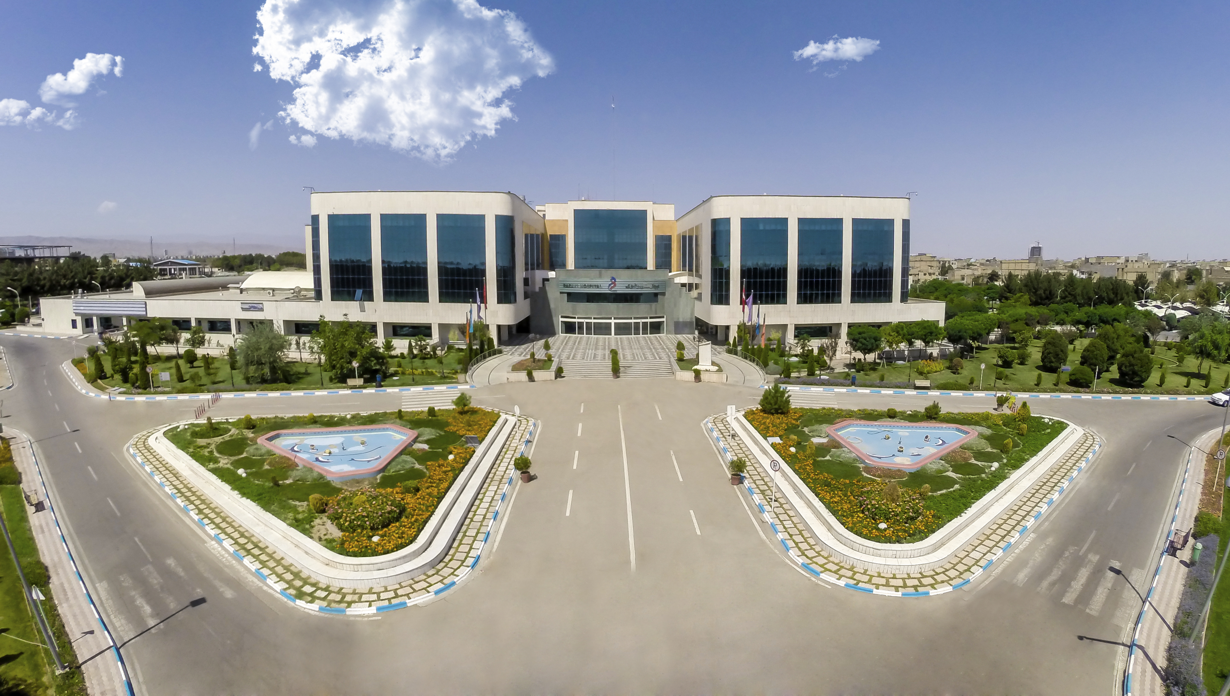 RazaviHospital_faz1